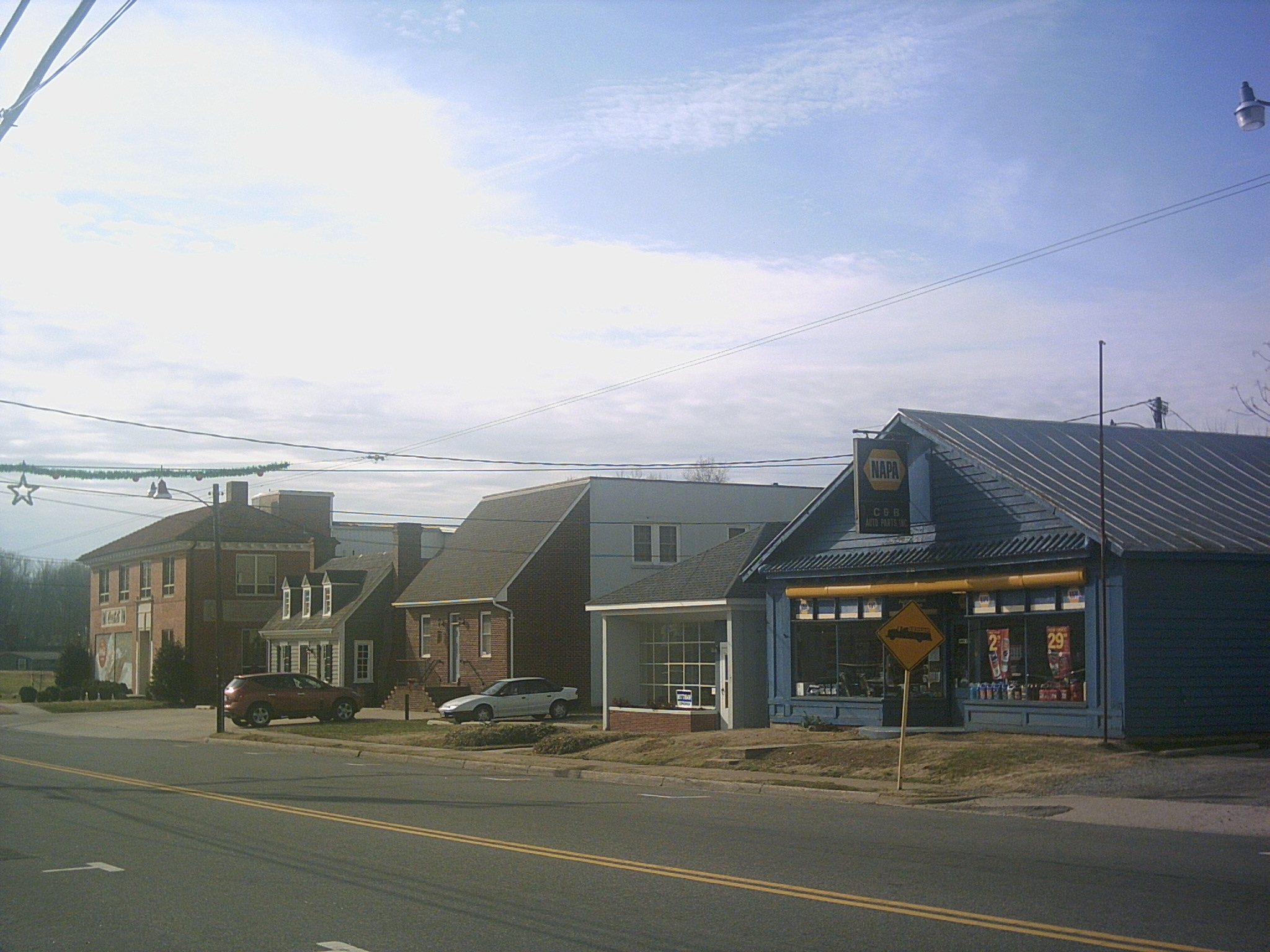 Downtown Montross, Virginia